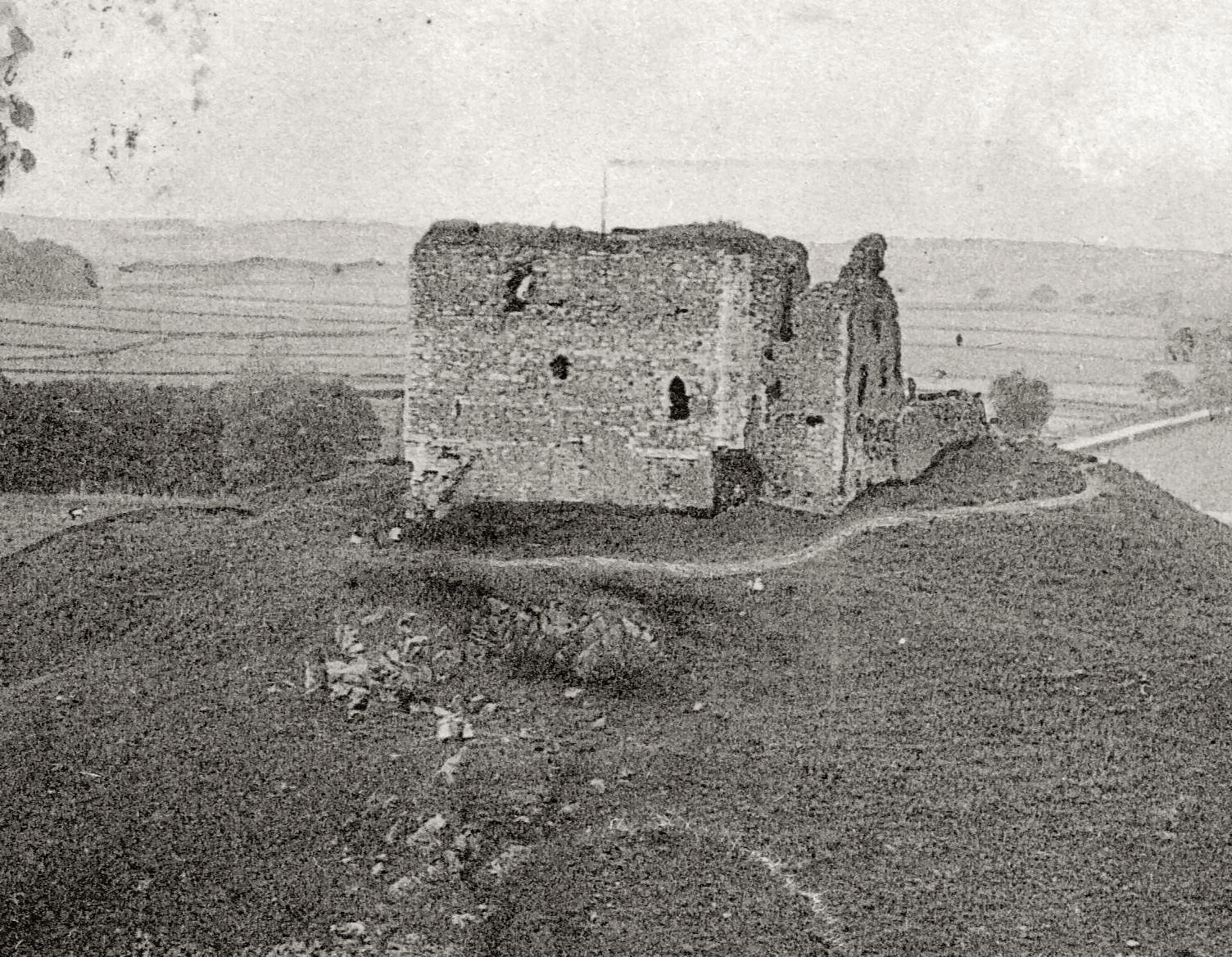 Dundonald Castle, Ayrshire, Scotland